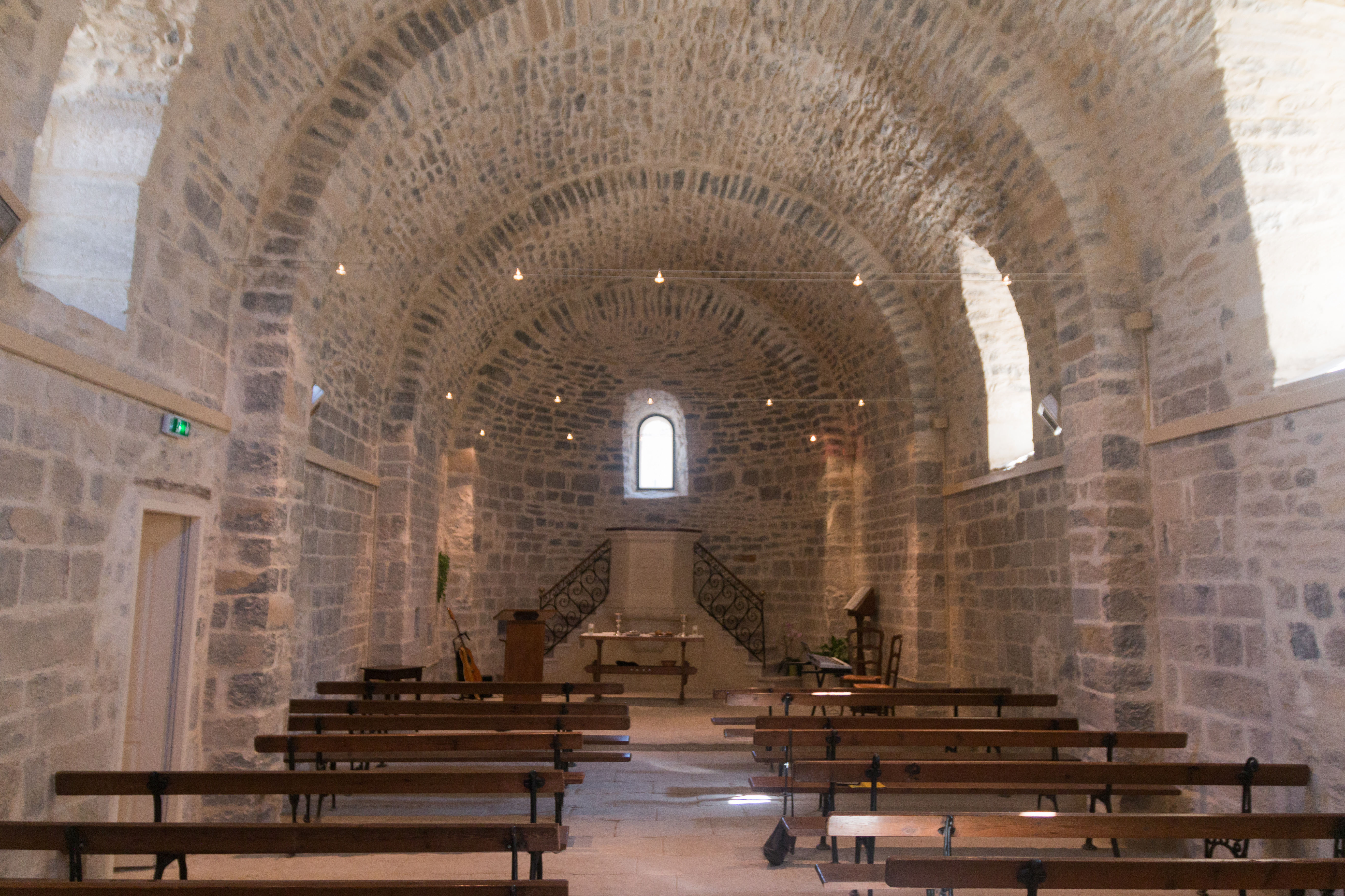 Nave of the old church witch became Protestant Temple.